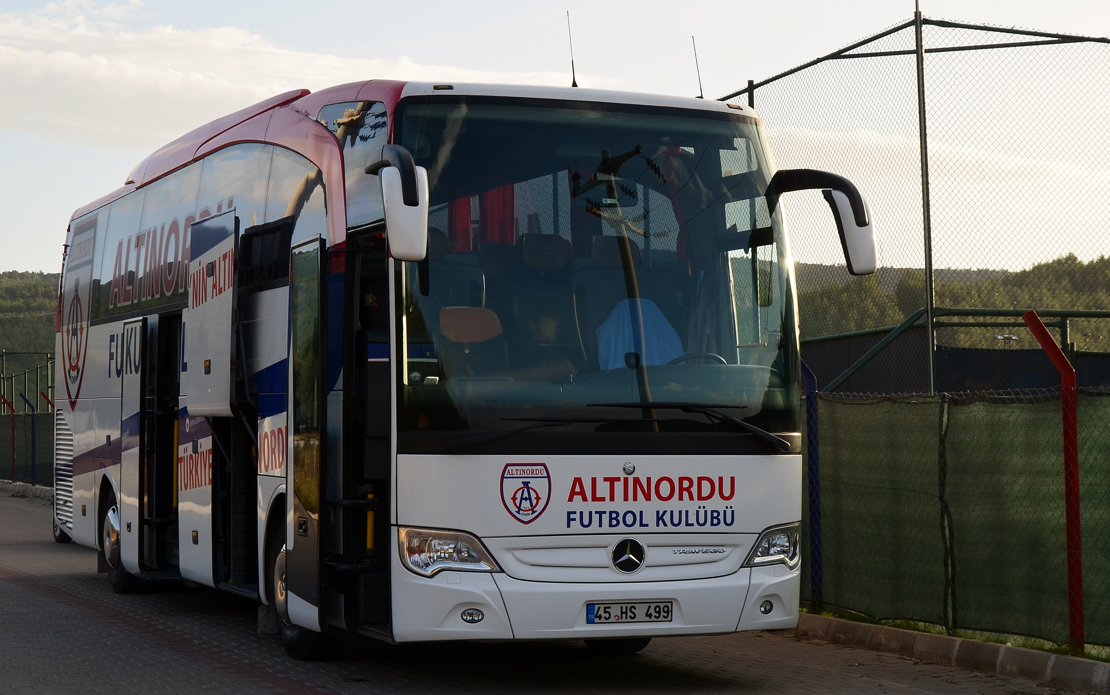 Team bus of Altınordu S.K.